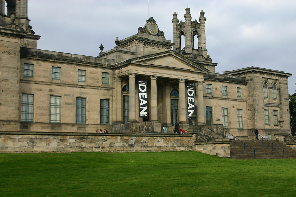 Dean Art gallery / exhibition space in Edinburgh. Coffee is much nicer here than across the road in the Gallery of Modern art.